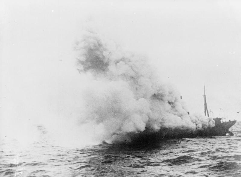 The German Naval auxiliary cruiser and minelayer SMS Meteor, on fire shortly before she sank